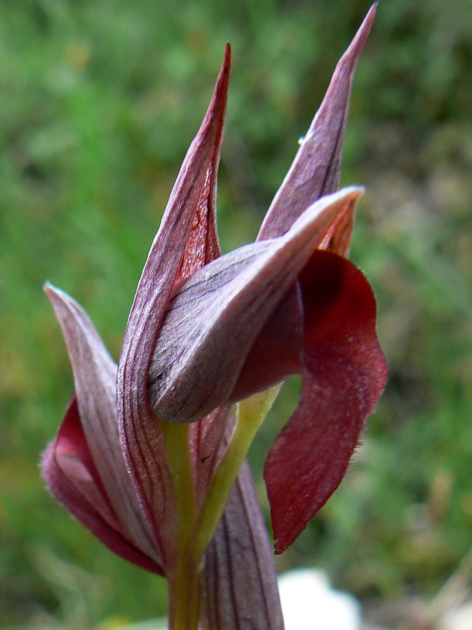 Serapias olbia, Plaine des Maures, Var, France. Detail of flower.